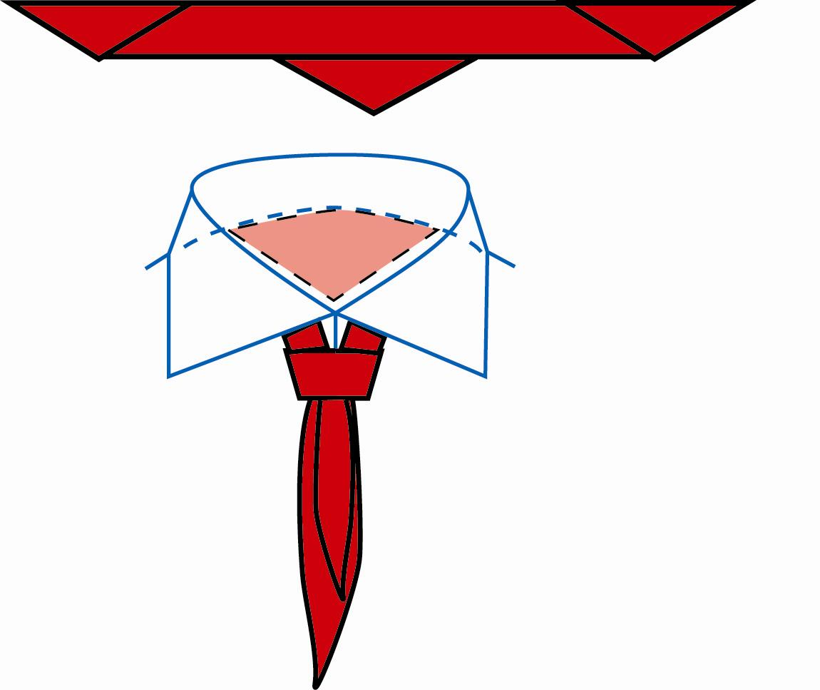 Red Scarf worn by Young Pioneers of China, folded and worn under shirt collar